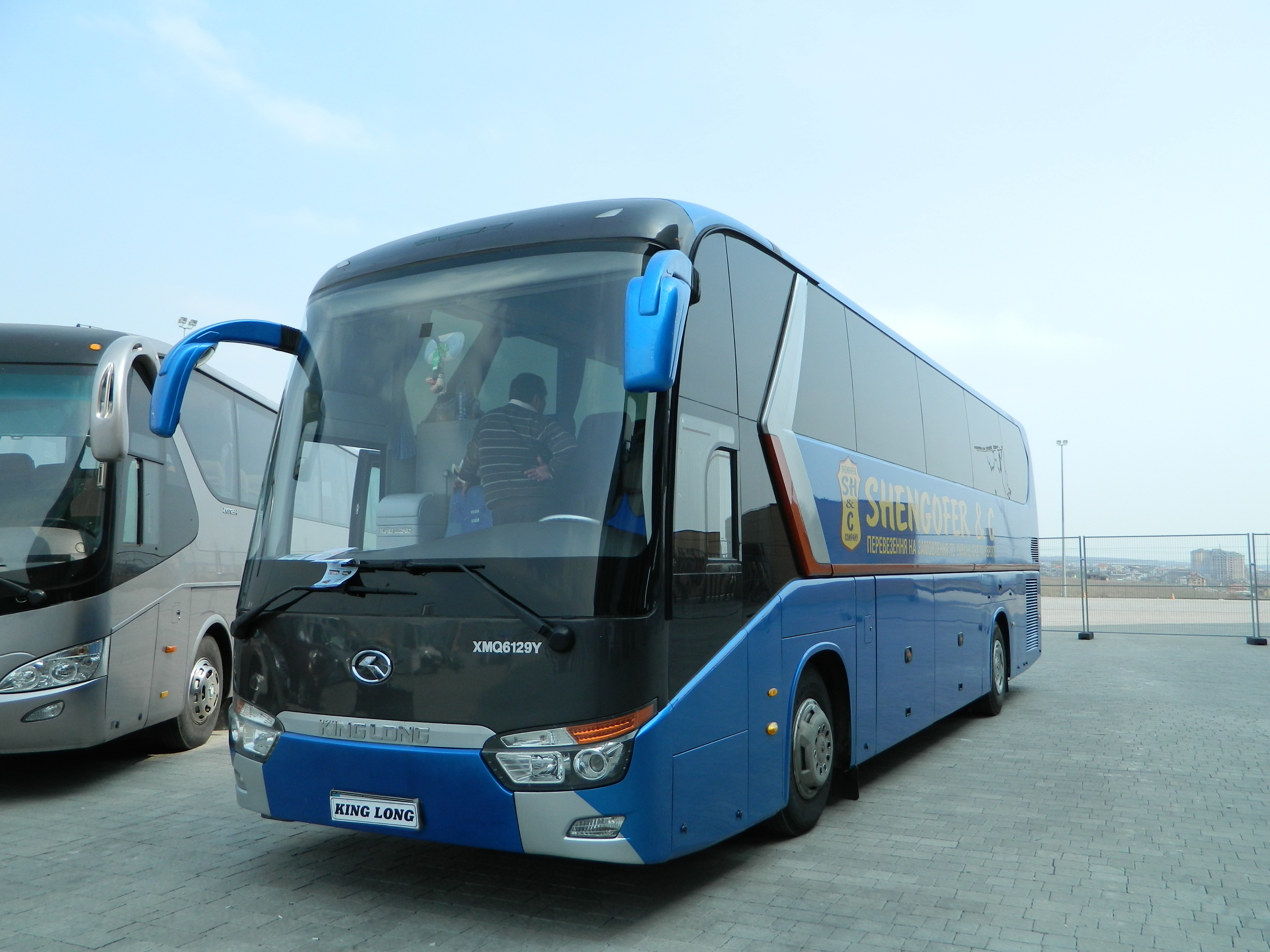 King Long XMQ-6129Y on Autotech-2013, front view